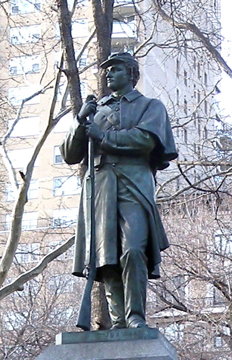 Statue for 7th Regiment Memorial. Detail cropped from wider File:7th Regt Mem of 1861-1865 CP small jeh.jpg